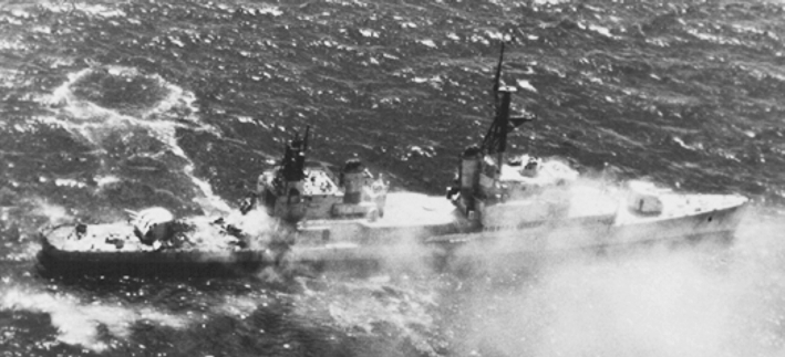 The decommissioned U.S. Navy destroyer USS William M. Wood (DD-715) as a target for Harpoon anti-ship missiles off Puerto Rico during Operation ReadEx 1-83 in March 1983.